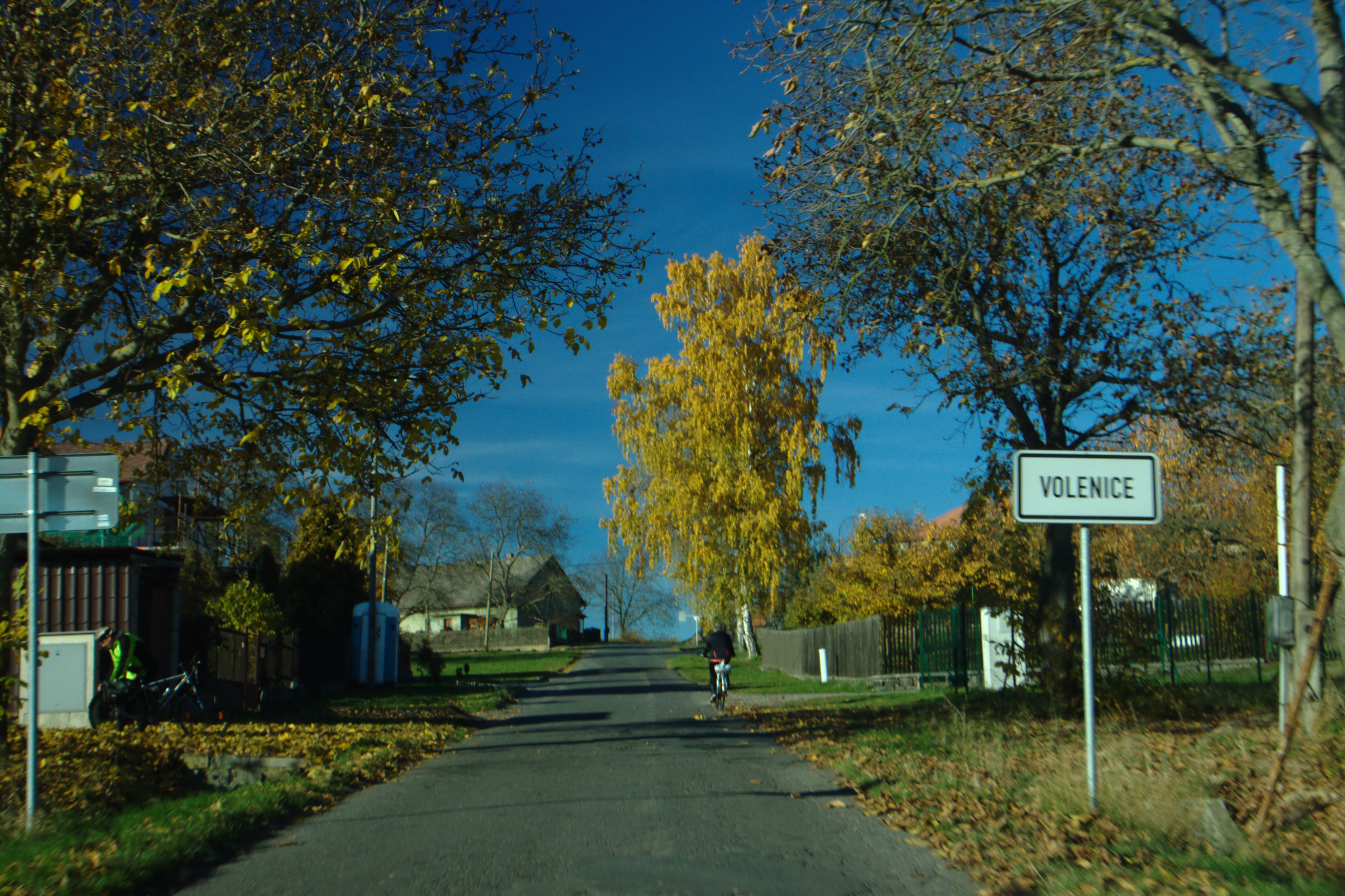 Main road in the village of Volenice, Central Bohemia, CZ